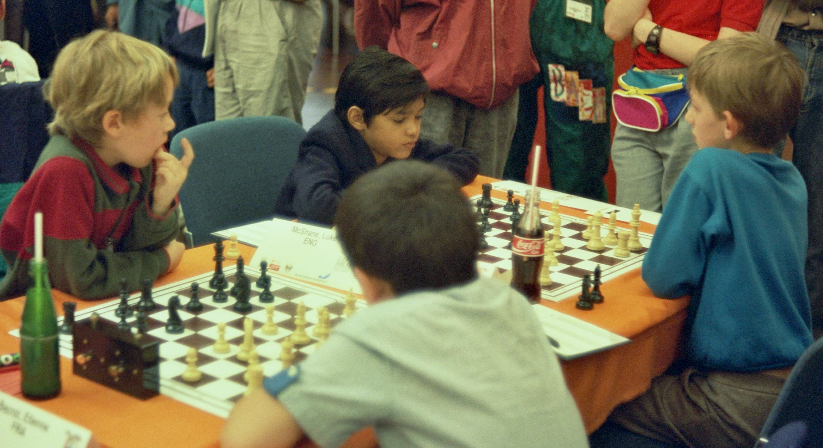 Luke McShane - Sarkhar Kuliev - Neelotpal Das - Alexander Grischuk, World Youth Chess Championship (under 10) 1992 at Duisburg, Photographer Gerhard Hund.